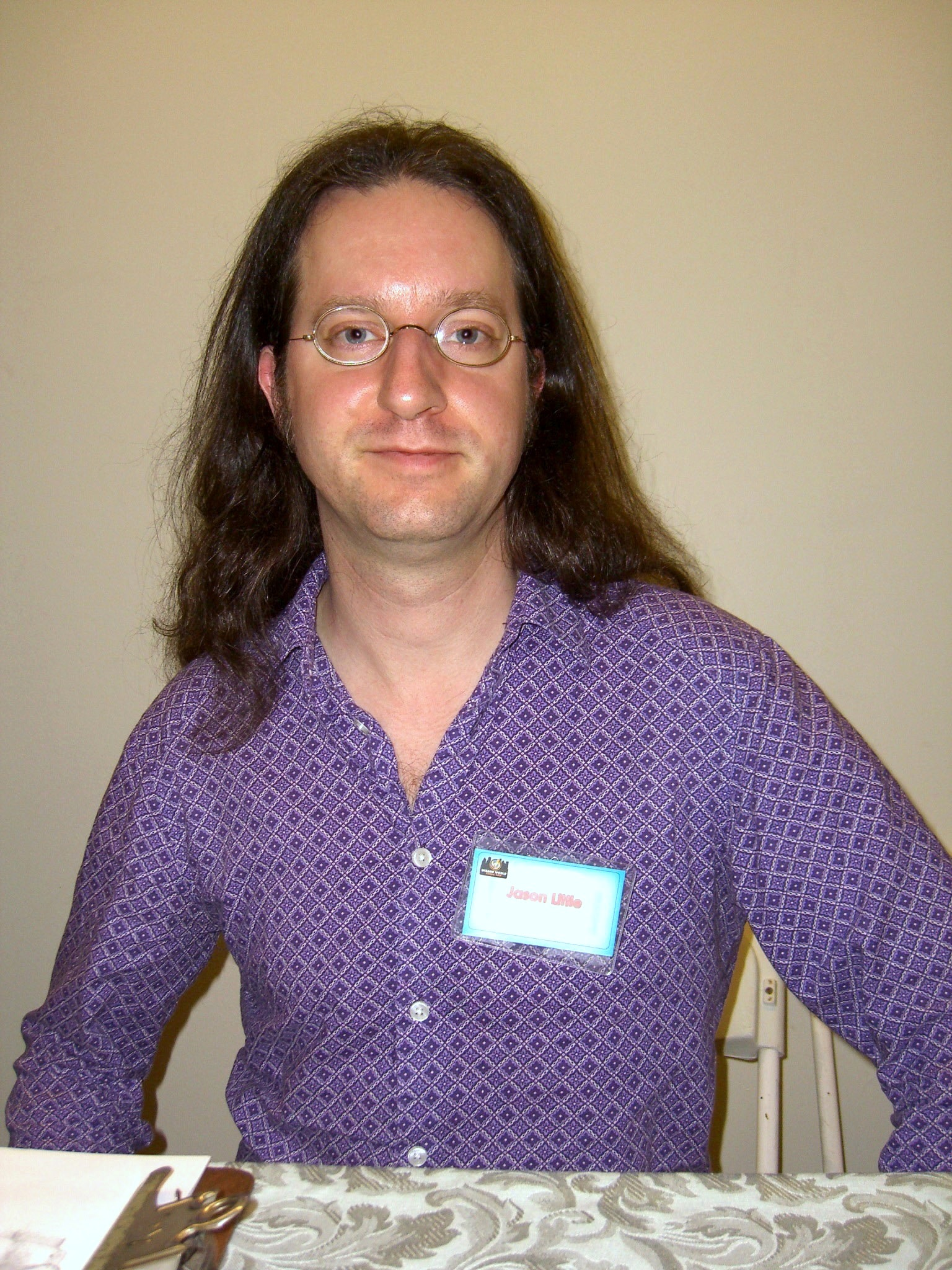 Comics creator Jason Little at the Big Apple Convention in Manhattan, May 21, 2011. Photographed by Luigi Novi. This photo is not in the public domain. It may, however, be used, modified and published for any purpose, free of charge, only if the photographer is properly credited, either by linking the photograph to this page, or with an easily visible credit to the photographer placed near the photo in each instance in which it is used. (See licensing information below.) Publication of this photo without this proper attribution constitutes copyright infringement. If you have any questions, you can contact me on my Wikipedia Talk Page.